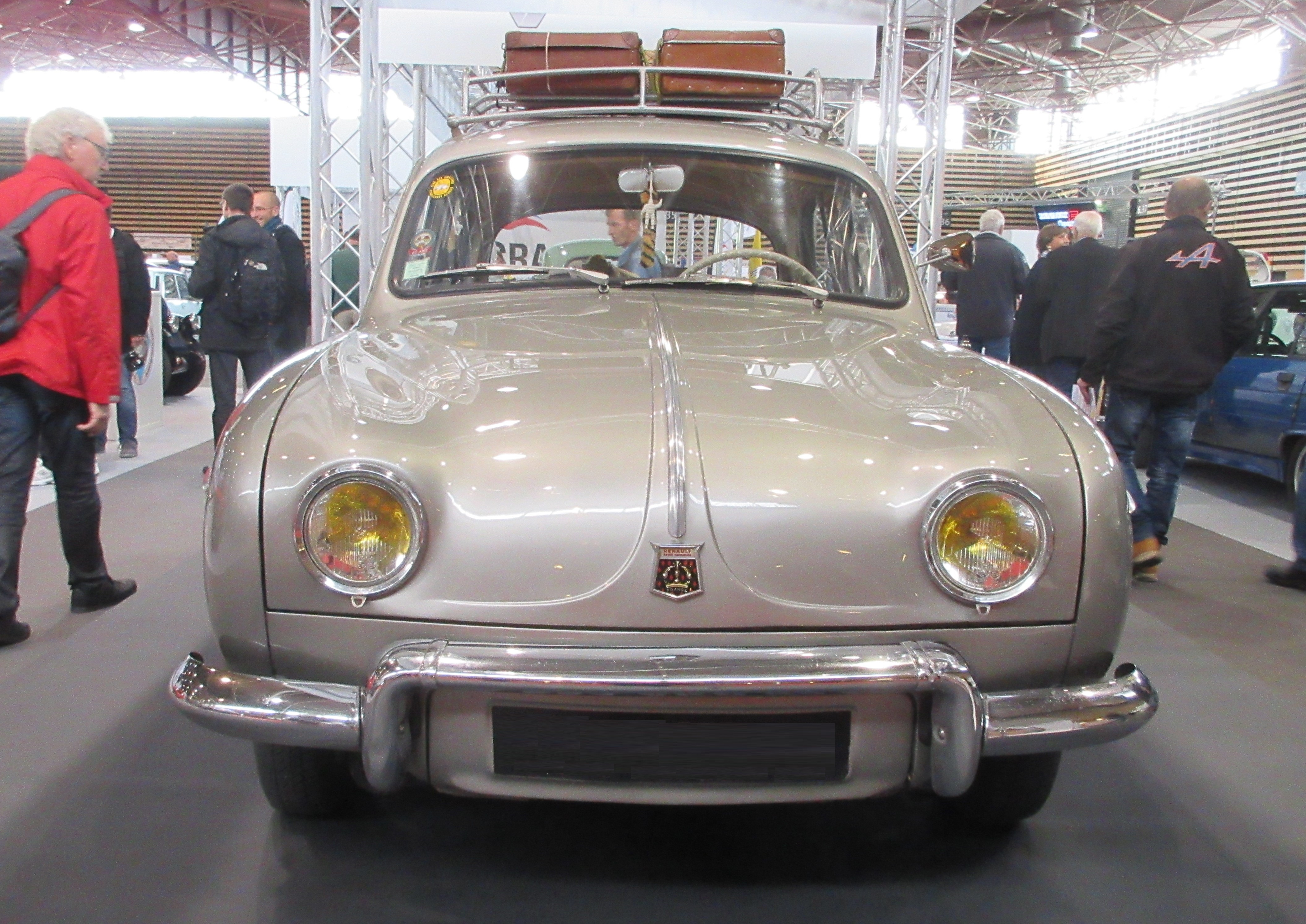 Subject: Renault Dauphine Author: Luc106 Date:November 4th, 2016 Event: Epoqu'Auto Place/Country: Lyon (France) I release all rights in the public domain. Licensing